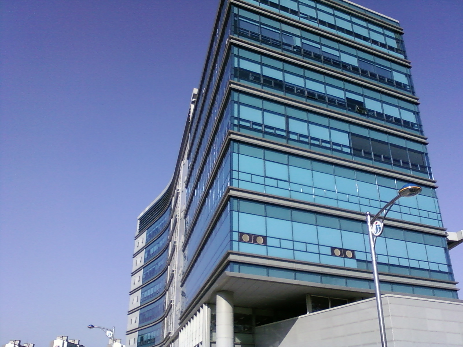 Jeollabuk-do Office of Education in Jeonju, Jeollabuk-do, Republic of Korea